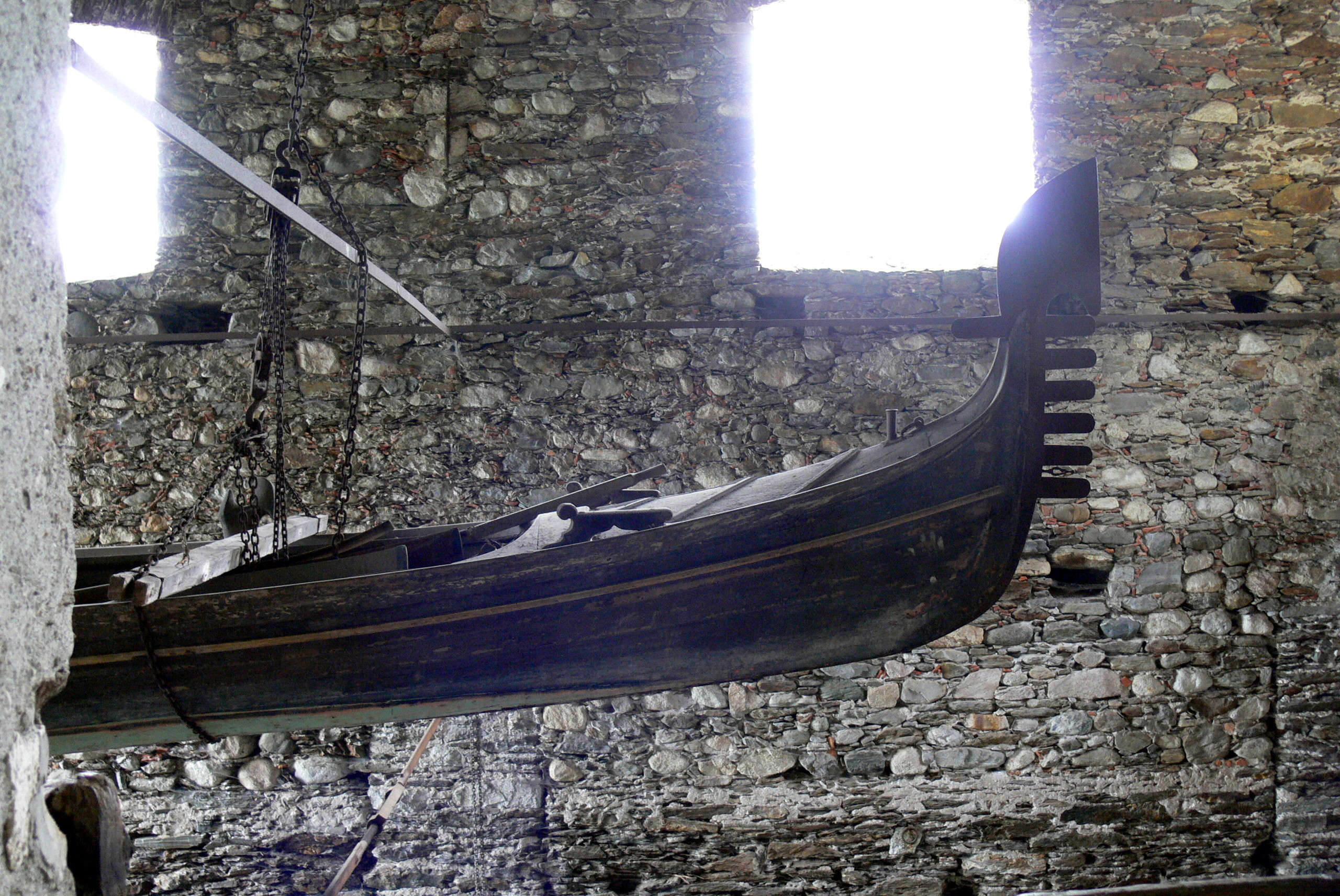 Isola Madre ( Lago Maggiore ). Gondola inside the boat house.